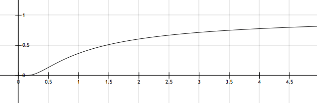 According to the Arrhenius equation, the kinetic constant increases as temperature increases.